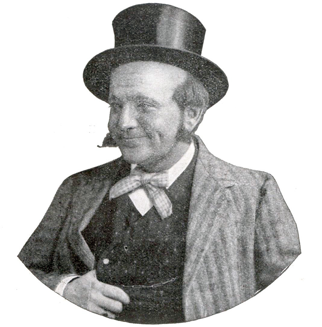 Victor Thorén (1879-1948)